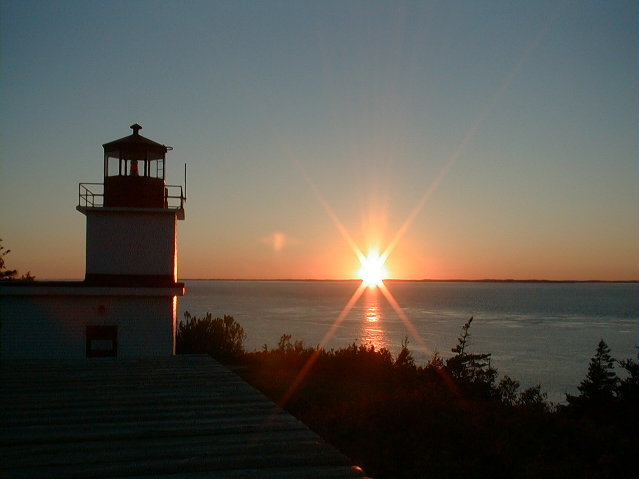 Sunset at "Whistle" light house, Grand Manan